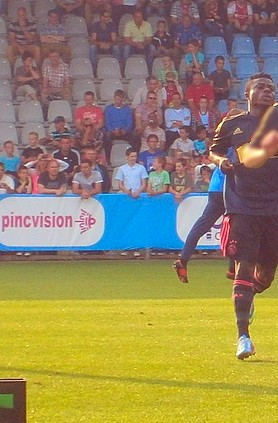 Moses Daddy-Ajala Simon before the friendy match between AFC Ajax and BV De Graafschap on 13 July 2013.